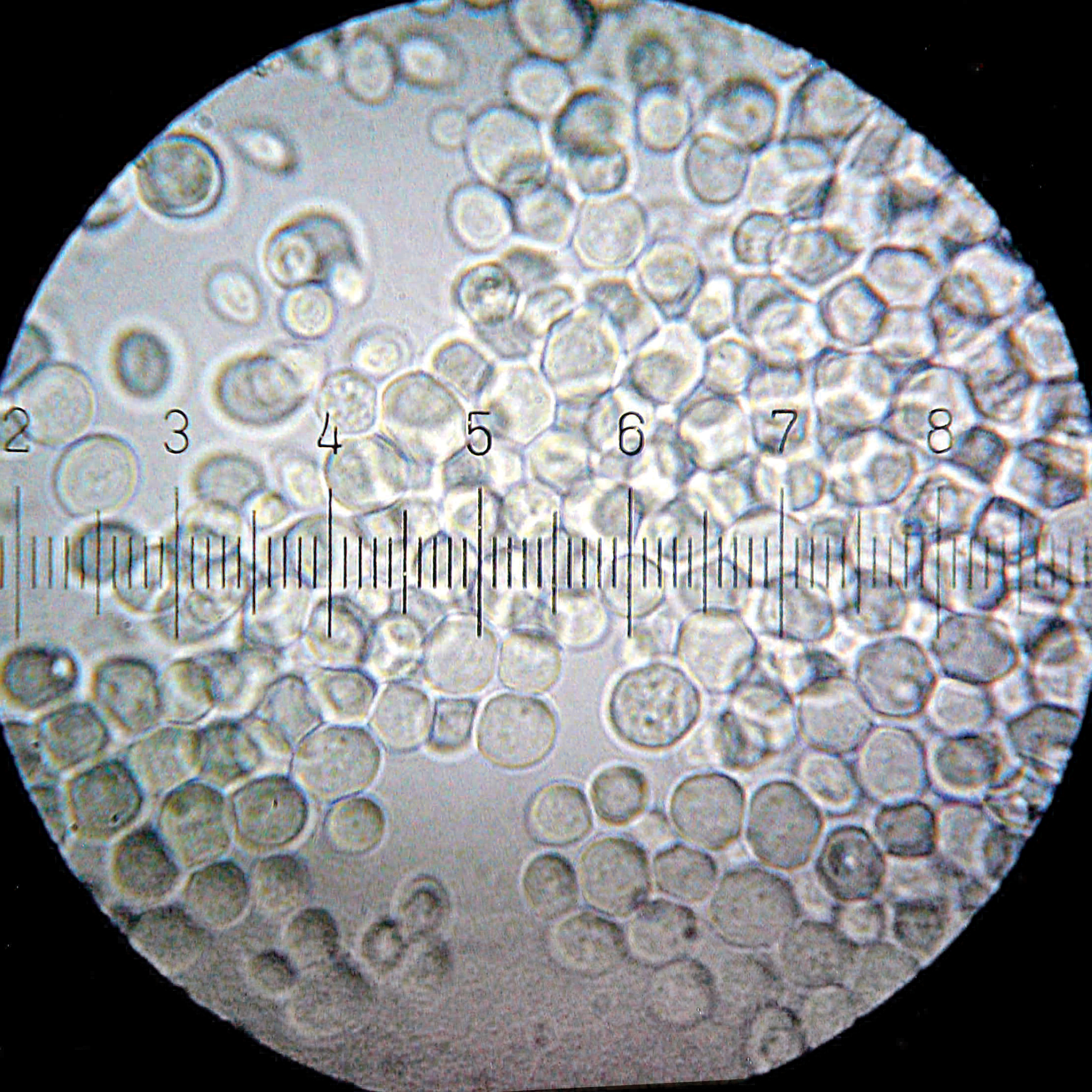 Saccharomyces cerevisiae — baker's yeast. 100× objective, 15× eyepiece; numbered ticks are 11 µm apart. Each pixel in the full-sized version of this image represents a 0.038 µm square.